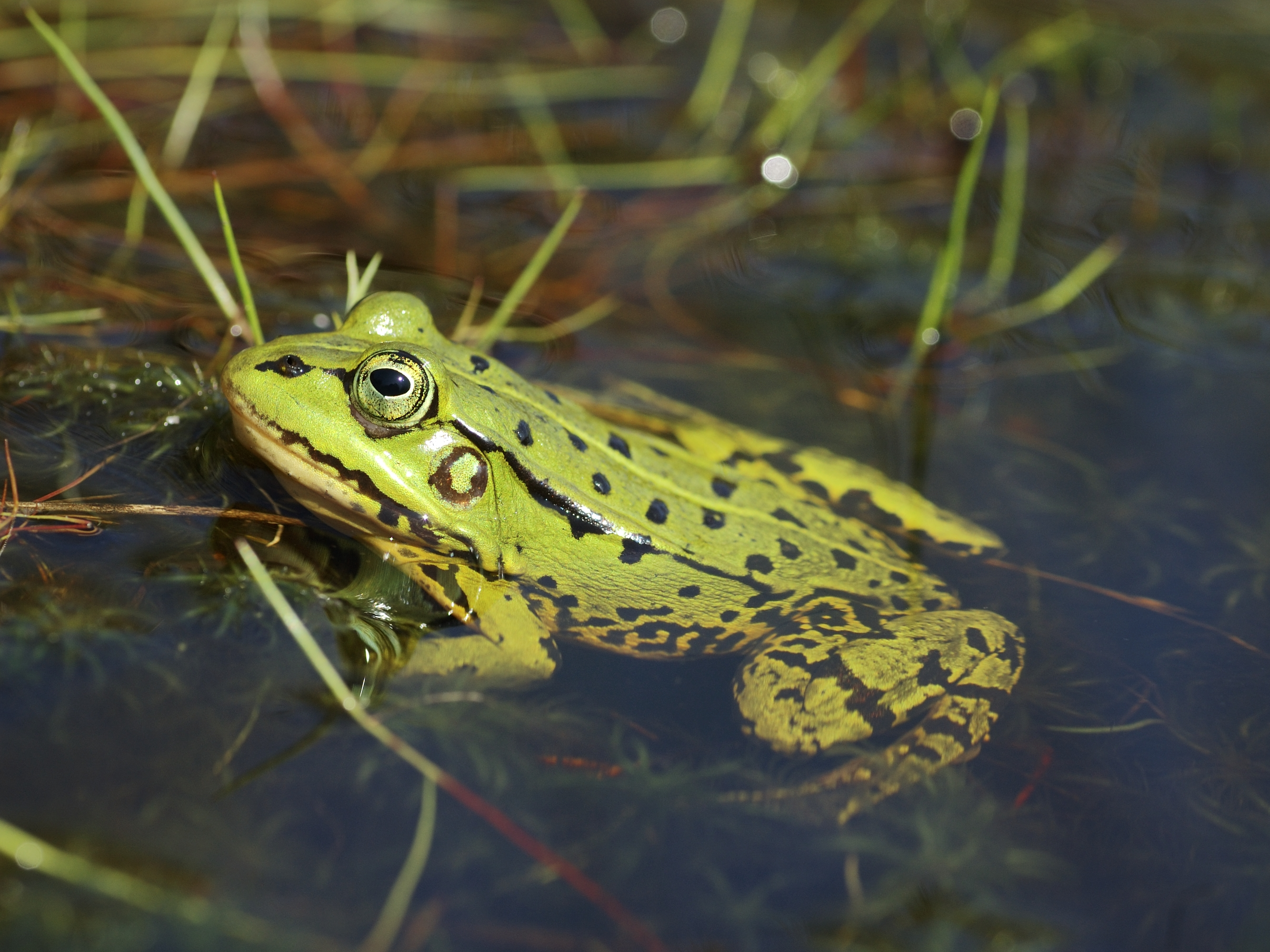 Edible frog Common water frog Green frog